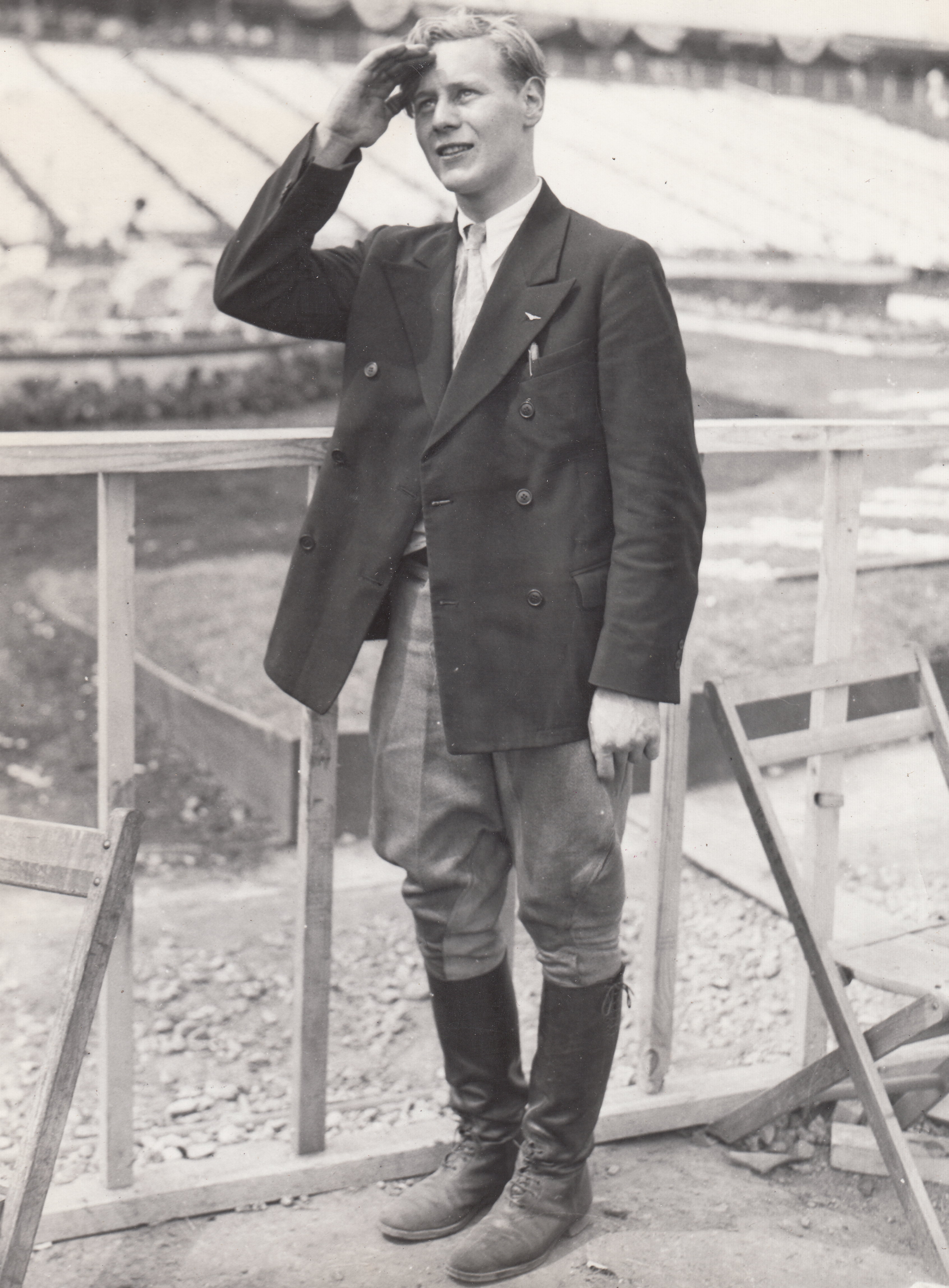 Eddie August Schneider on August 26, 1930 at the National Air Race in Chicago, Illinois. The image was scanned at 600 dpi, and compressed to 95 quality. "Record Holder at Air Races. August 26, 1930; Chicago, Illinois. Eddie Schneider, holder of the junior coast-to-coast flight record, as he appeared at the National Air Races in Chicago."